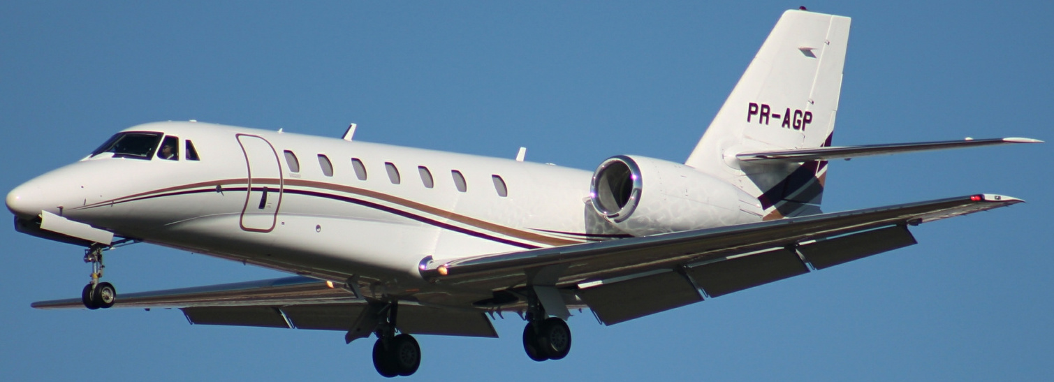 IMG_6528[1]_Fotor